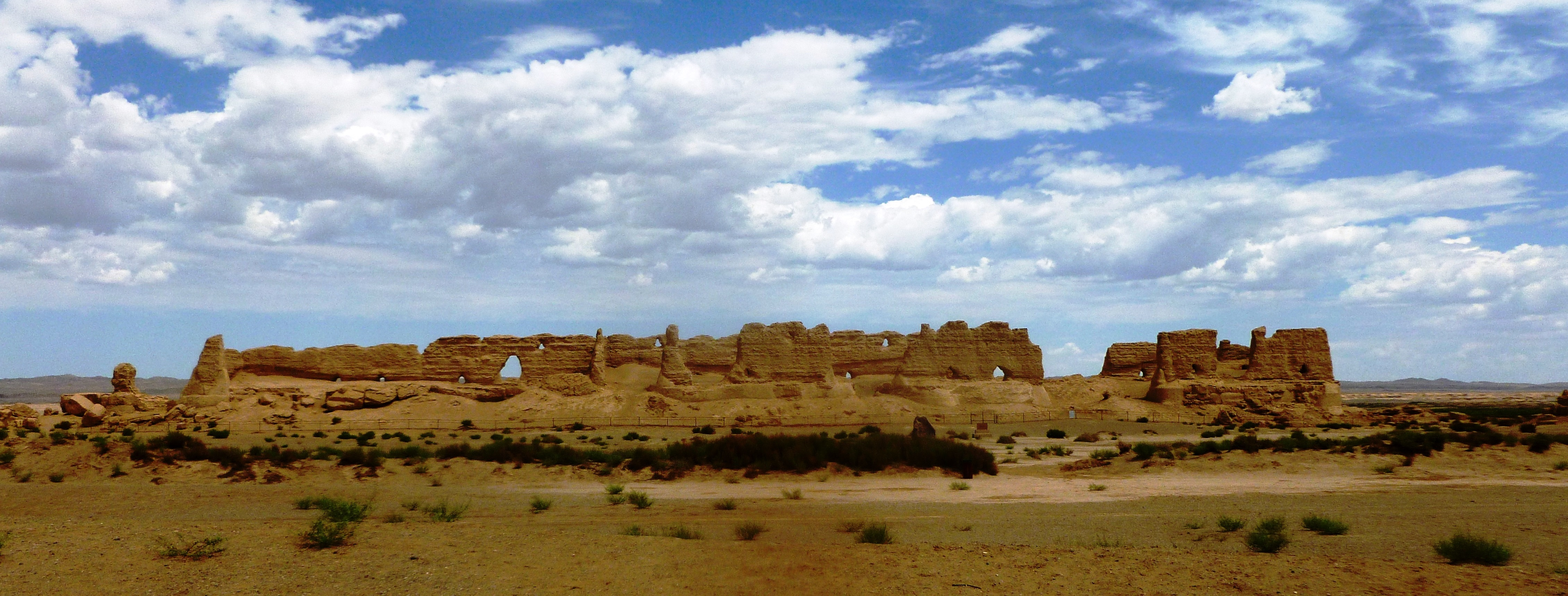 I took this photo myself in 2011. It shows the main Han Dynasty granary between Dunhuang and the Jade Gate - an important supply center for the ancient Silk Routes. These rammed earth ruins of a granary in Hecang Fortress (Chinese: 河仓城； Pinyin: Hécāngchéng), located ~11 km (7 miles) northeast of the Western-Han-era Yumen Pass, were built during the Western Han (202 BC - 9 AD) and significantly rebuilt during the Western Jin (280-316 AD). Source: Wang Xudang, Li Zuixiong, and Zhang Lu (2010). "Condition, Conservation, and Reinforcement of the Yumen Pass and Hecang Earthen Ruins Near Dunhuang", in Neville Agnew (ed), Conservation of Ancient Sites on the Silk Road: Proceedings of the Second International Conference on the Conservation of Grotto Sites, Mogao Grottoes, Dunhuang, People's Republic of China, June 28 - July 3, 2004, 351-357. Los Angeles: The Getty Conservation Institute, J. Paul Getty Trust. ISBN 978-1-60606-013-1, pp 351-352.